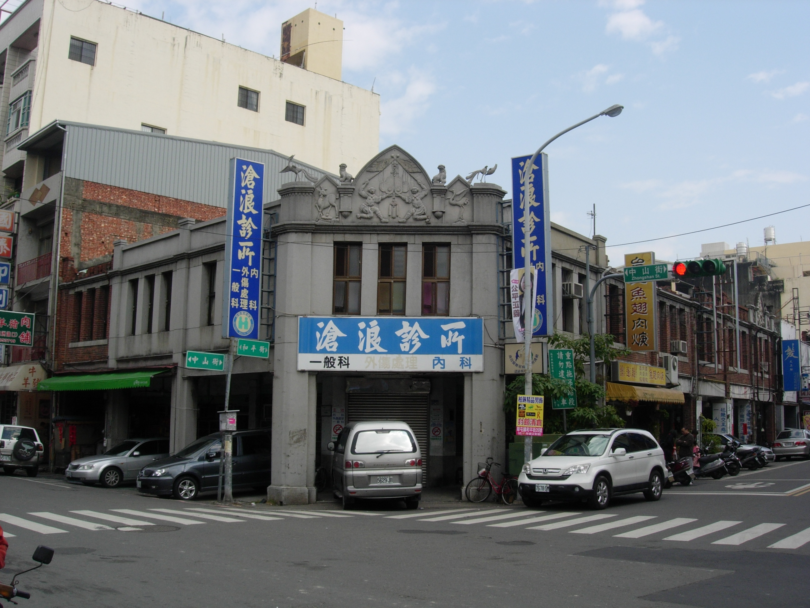 Tsaotun Old Street